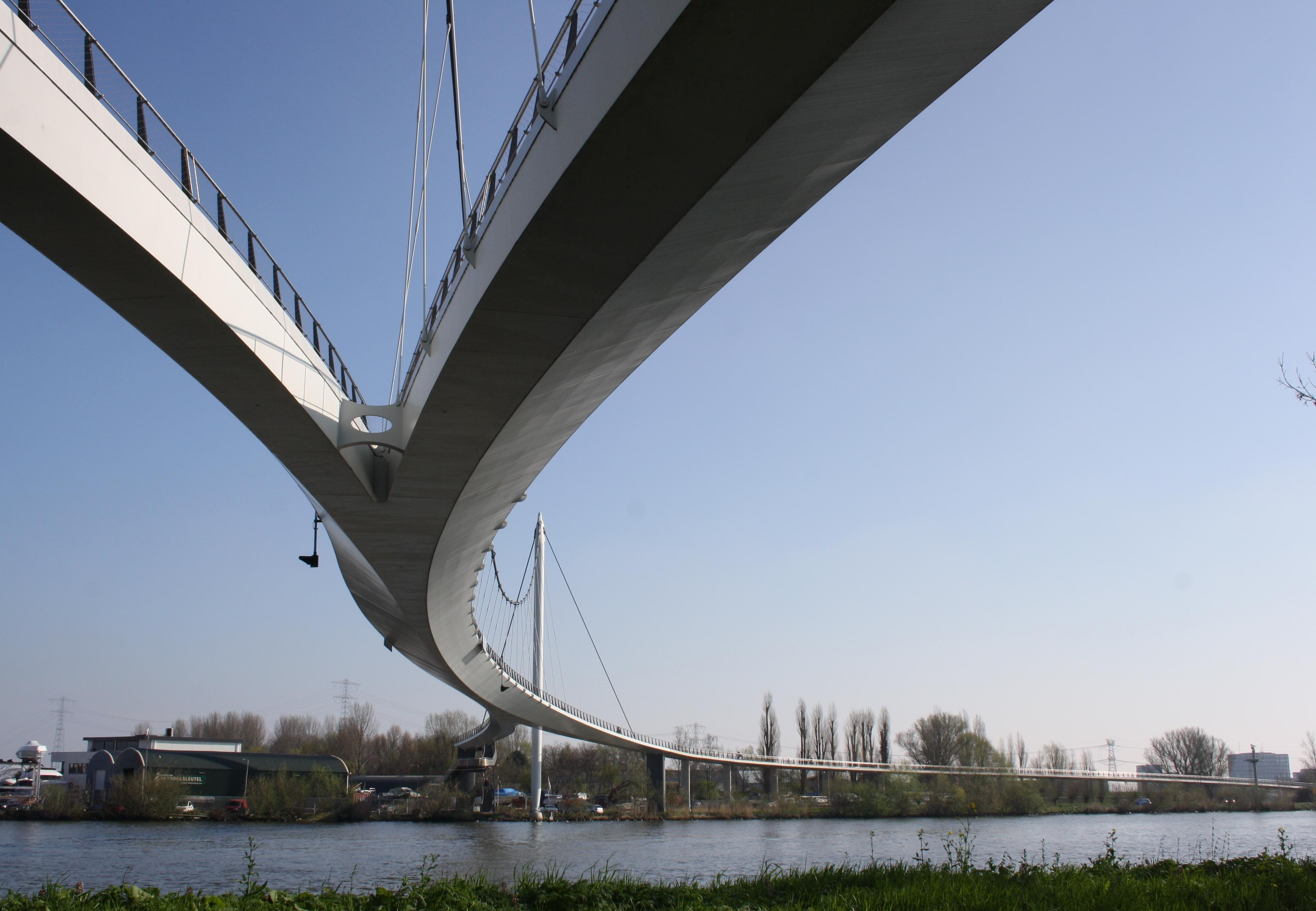 Amsterodam, bridge. From cycle path to Naarden